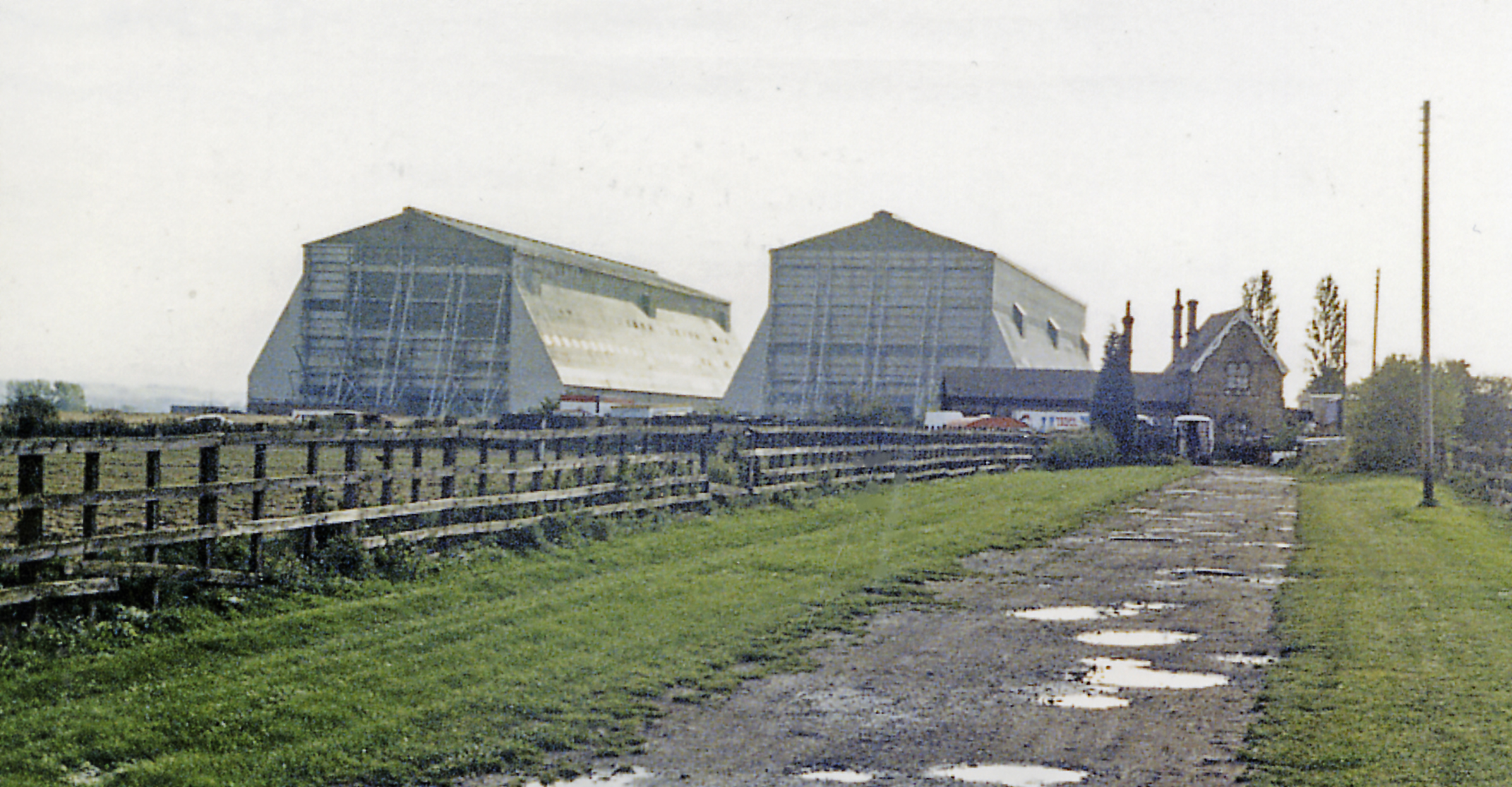 Cardington station (remains) and Airship Sheds, 1987. View SW, across the former ex-Midland Bedford (right) - Hitchin (left) line. The line was closed to passengers from 1/1/62, but may have remained open for goods until 1969. The station seems to be well preserved, still overshadowed by the Airship Sheds.